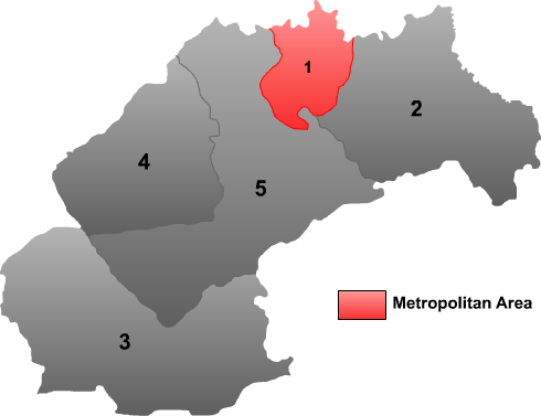 Map of Songyuan prefecture in Jilin province